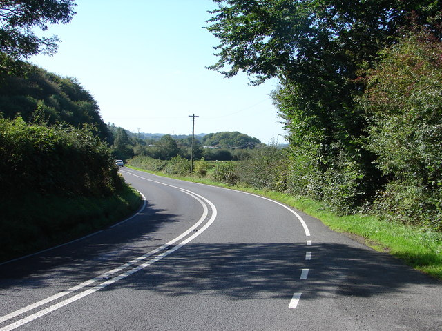 A487 Road, near to Pennal, Gwynedd, Great Britain. Looking in the direction of Glandyfi.